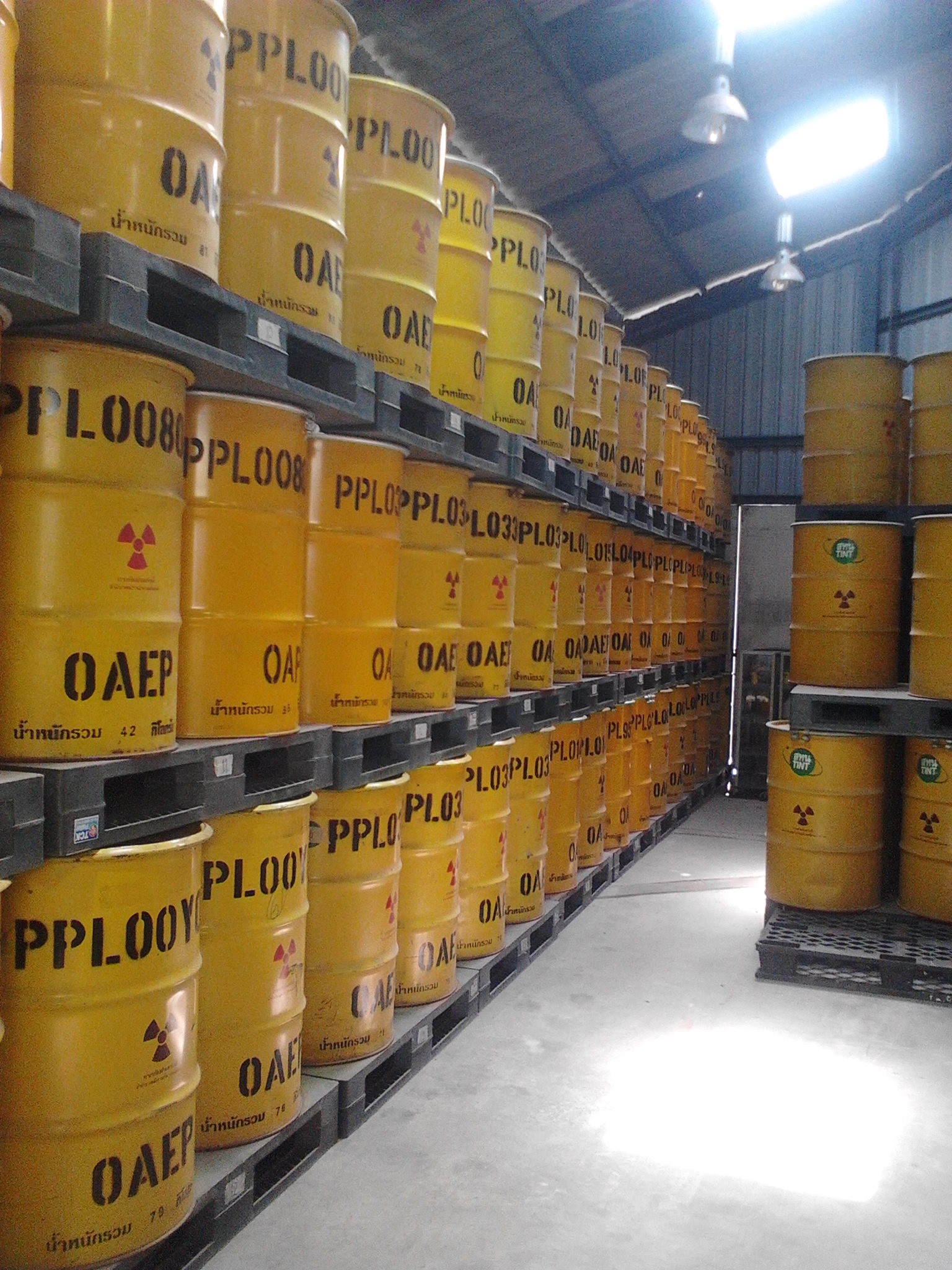 Barrels of the wastes